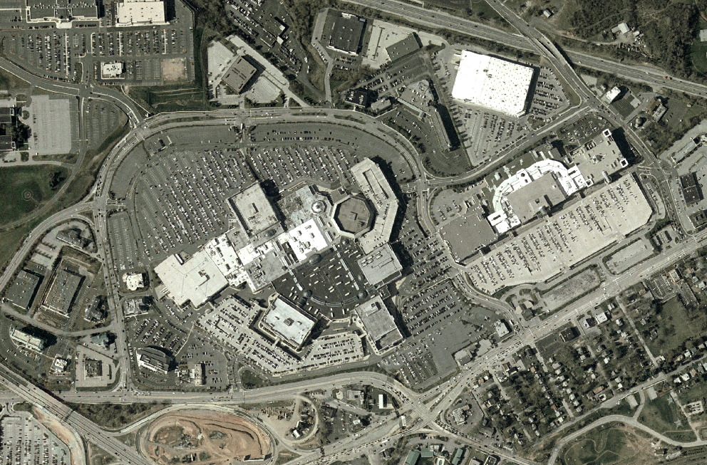 King of Prussia Mall